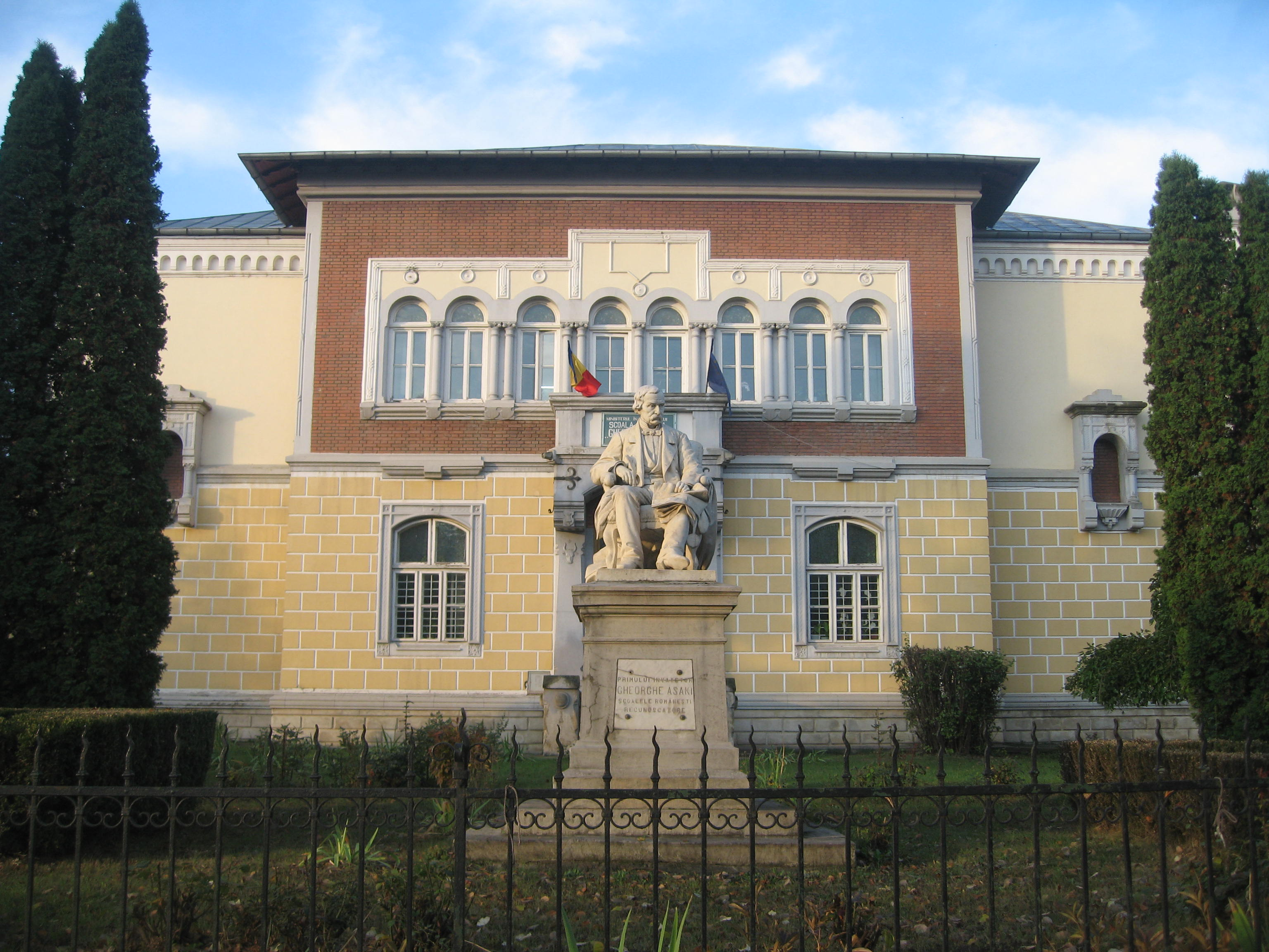 Statuia lui Gheorghe Asachi din Iaşi